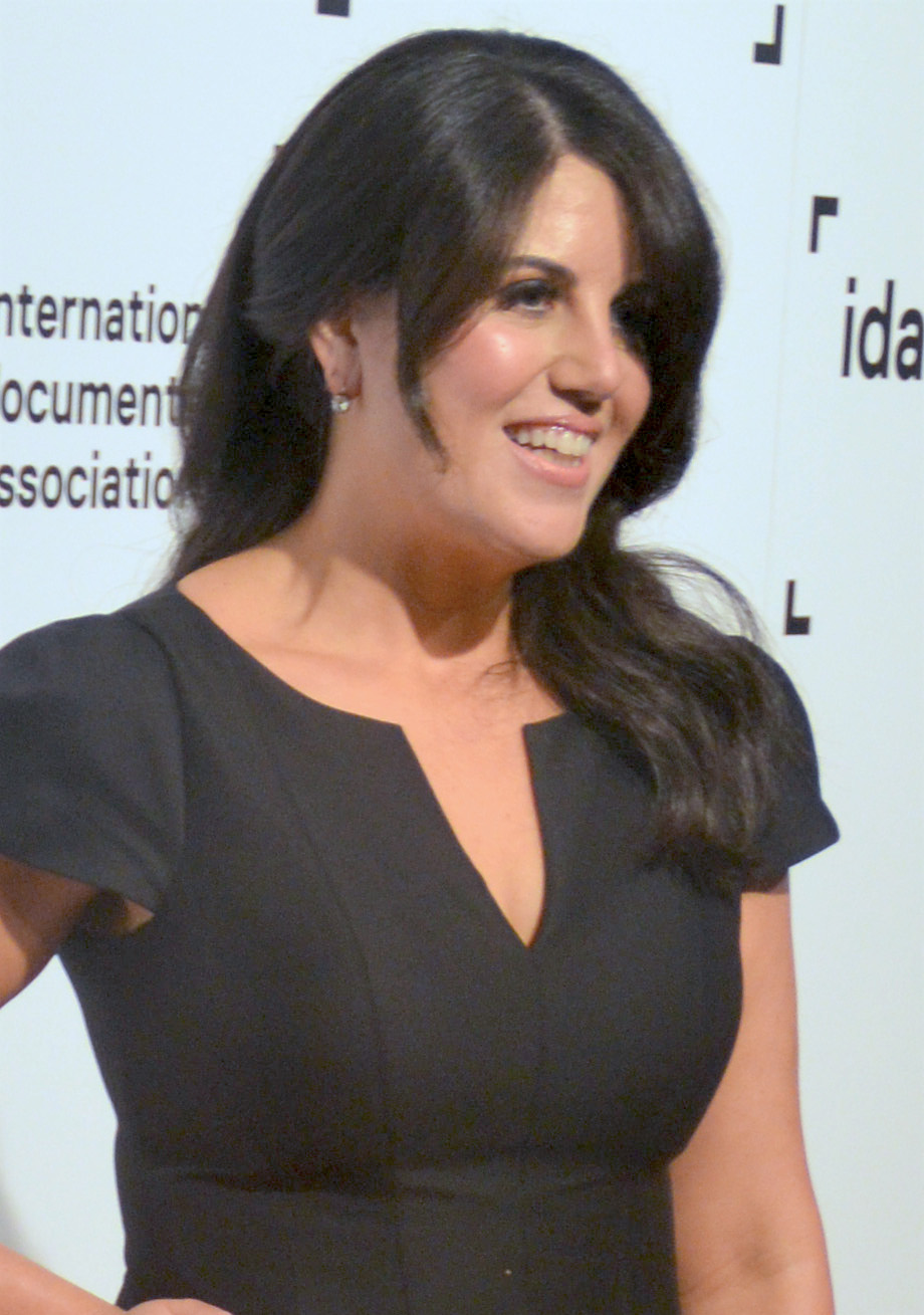 Monica Lewinsky at the 2014 International Documentary Association’s IDA Awards held at Paramount Studios in Hollywood.